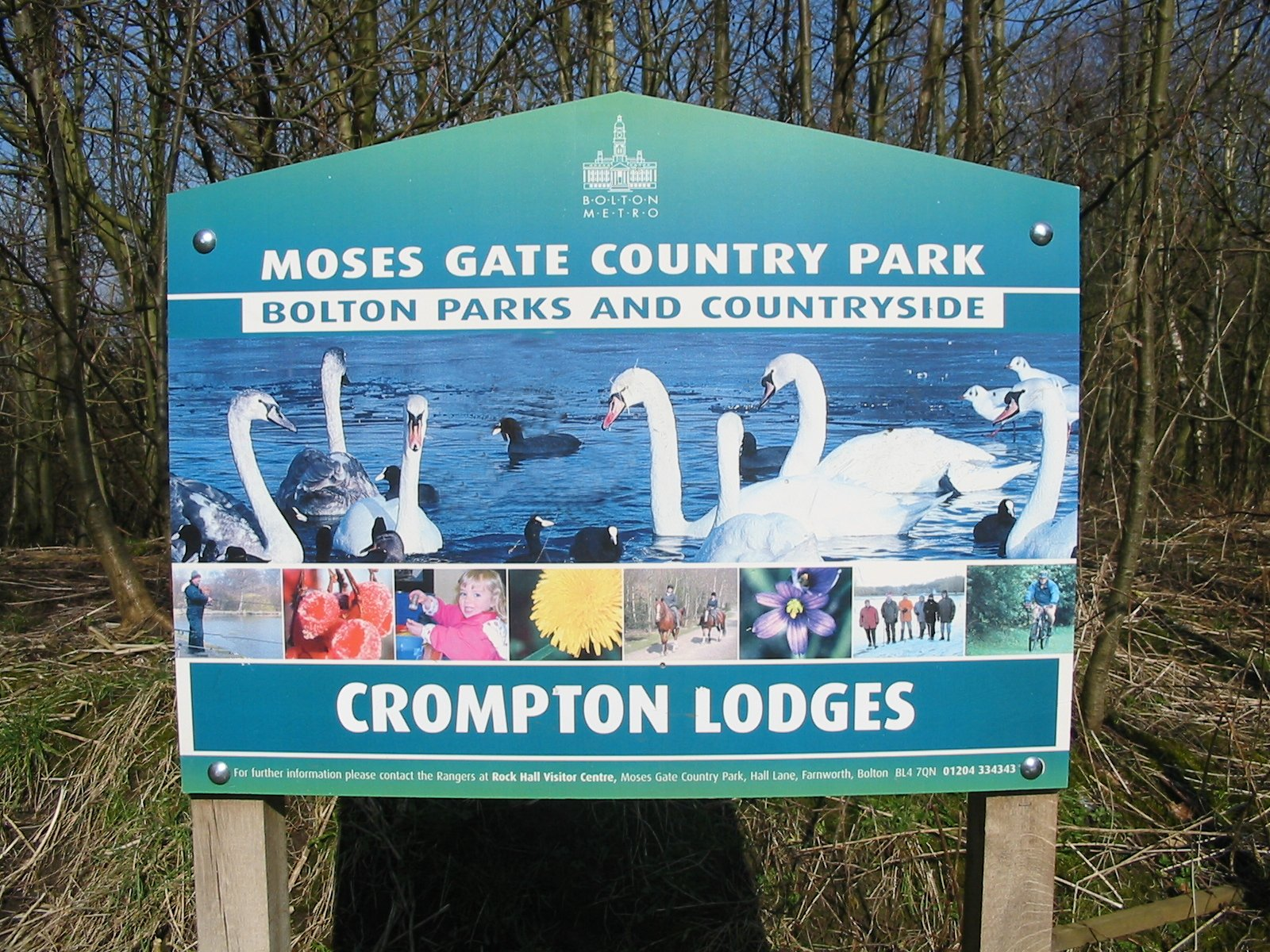 Sign at Moses Gate Country Park, Bolton, UK. Taken by Geotek 2005